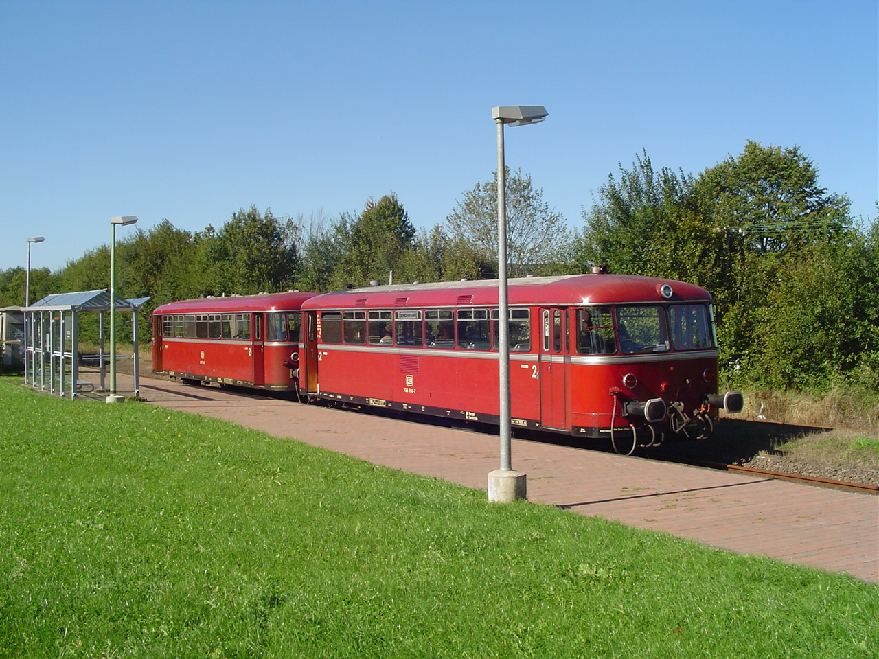 Eifelquerbahn at Ulmen Station